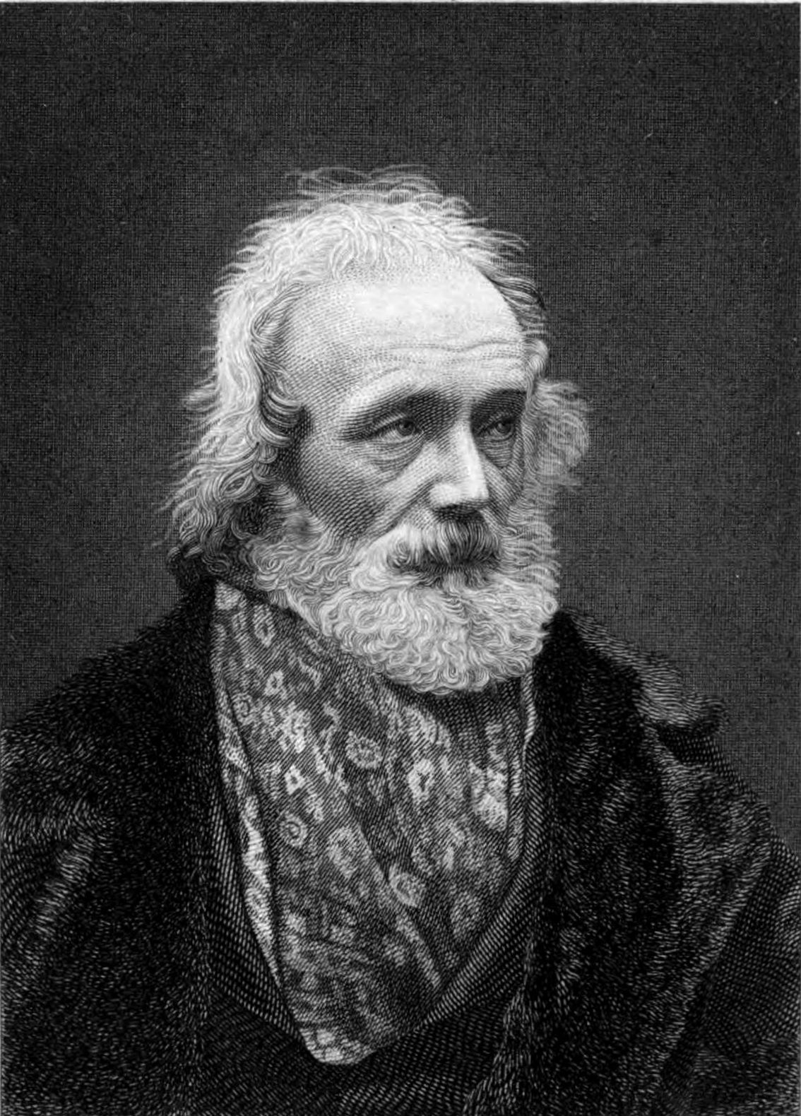 Portrait of the poet James Henry, from the frontispiece of his collection "Poematia"